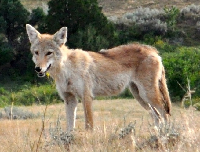 Plains coyote, Pennington County, South Dakota